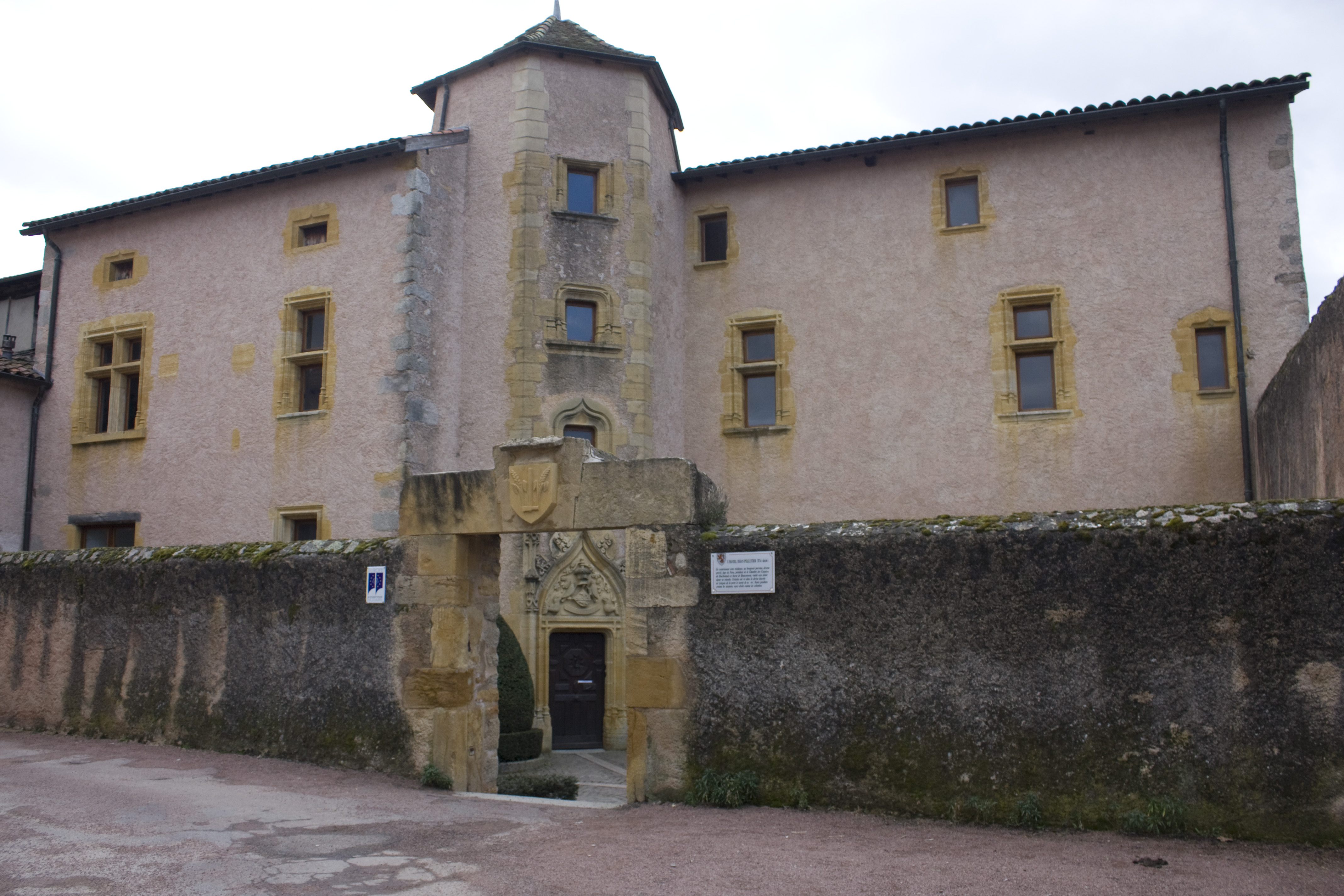 Mashion Pelletier. Restored, the manshion became a Notary Office